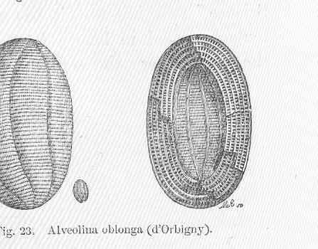 Alveolina oblonga (d'Orbigny) Subject: Foraminifera, Alverolina Tag: Invertebrates